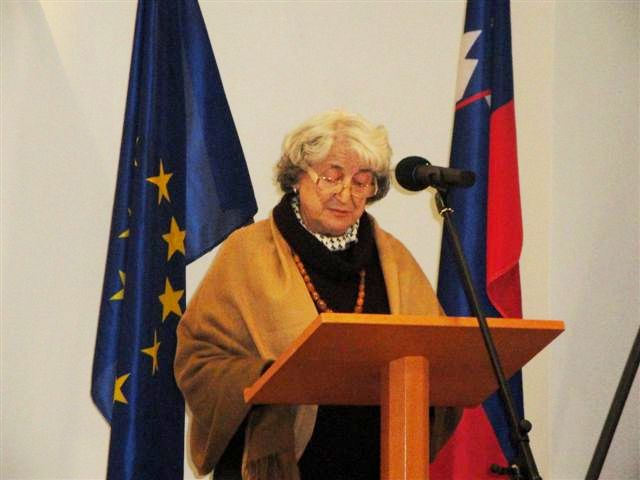 Croatian-Slovene art historian Vesna BučićSlovenščina: Hrvaško-slovenska umetnostna zgodovinarka Vesna Bučić, predstavitev v Slavini, 2009